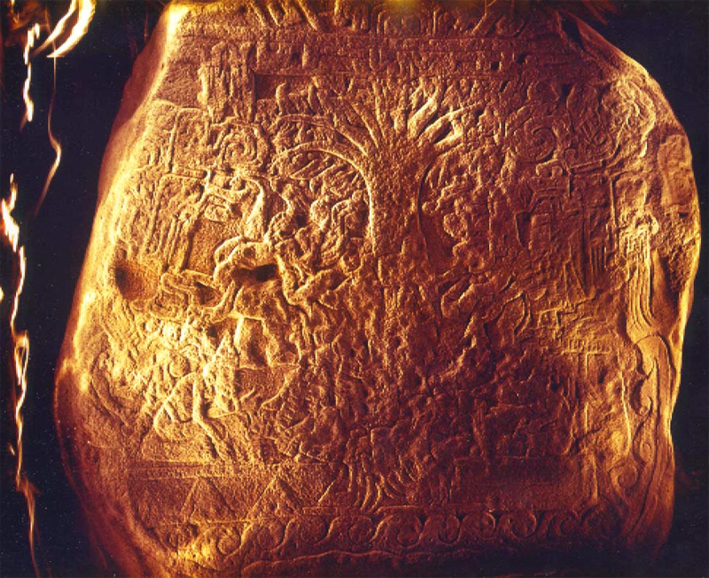 Night photography of the largest stela at Izapa ruins, Tapachula, Mexico. Acute side lighting provided lighting relief of difficult to see details.